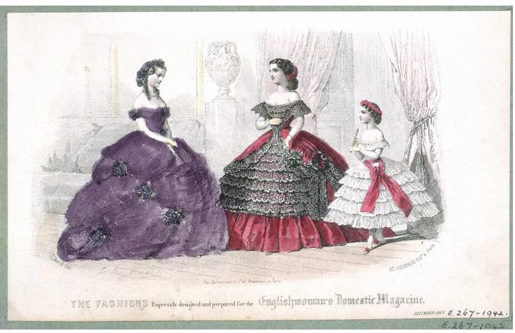 Fashion plate, 1860 V&A Museum no. E.267-1942 Techniques - Lithograph, coloured by hand, ink and watercolour on paper Artist/designer - Jules David, born 1808 - died 1892 (engraver) Lamoureux & J. De Beauvais (Printer) S. O. Beeton (publisher) Place - London, England (published) Dimensions - Height 16.3 cm Width 26.7 cm Object Type - This is a fashion plate or magazine illustration showing the latest fashion. It is a lithograph and was issued hand-coloured. People - In 1860 the publisher of this magazine, Samuel Beeton (husband of the celebrated cookery writer Mrs Beeton), first began including hand-coloured fashion plates by Jules David. Beeton also included paper patterns, a new phenomenon that, combined with the fashion plates, ensured the magazine a particular appeal among the increasing numbers of owners of the domestic sewing machine. The sewing machine itself had only become widely available since the late 1850s. This magazine's wide distribution ensured an awareness of French fashions among a wider section of society. Jules David was a painter, book illustrator and lithographer, and was well known for his fashion plates. About 2,600 of these were published in the Moniteur de la Mode and then subsequently used in other magazines, in France, Germany, Britain, Spain and America. David was also the first to introduce the use of contemporary backgrounds into fashion plates. Subjects Depicted - This fashion plate shows examples of ball dresses. France dominated the world of fashion during this period and French fashion plates were an important source of information on the latest styles and colours. The dresses have fashionable wide skirts, reflecting the contemporary popularity of crinolines. Introduced in 1856, and generally made of hoops of spring steel suspended on strips of material, these allowed skirts to expand to enormous proportions not possible with layers of petticoats.